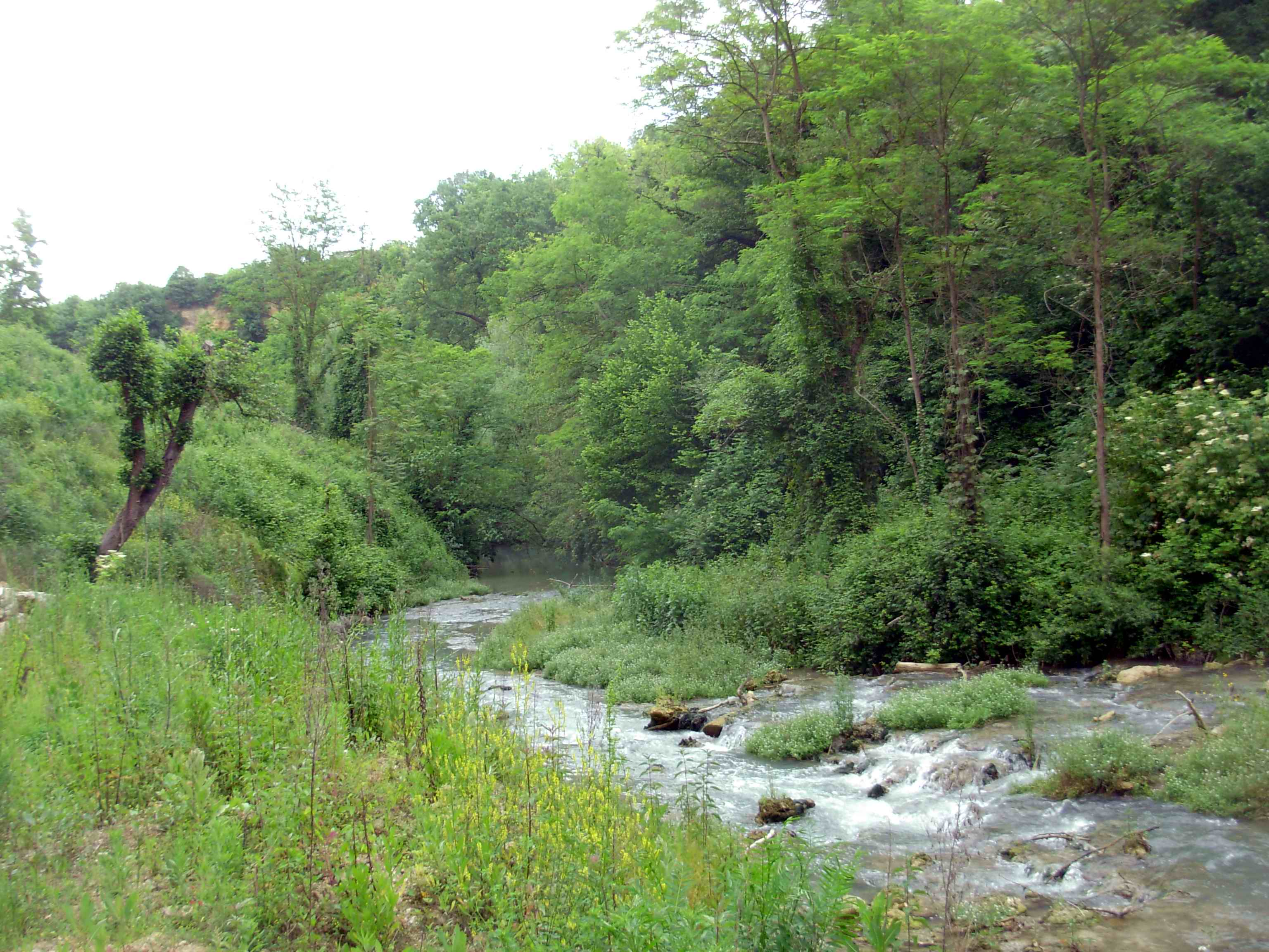 Elsa river